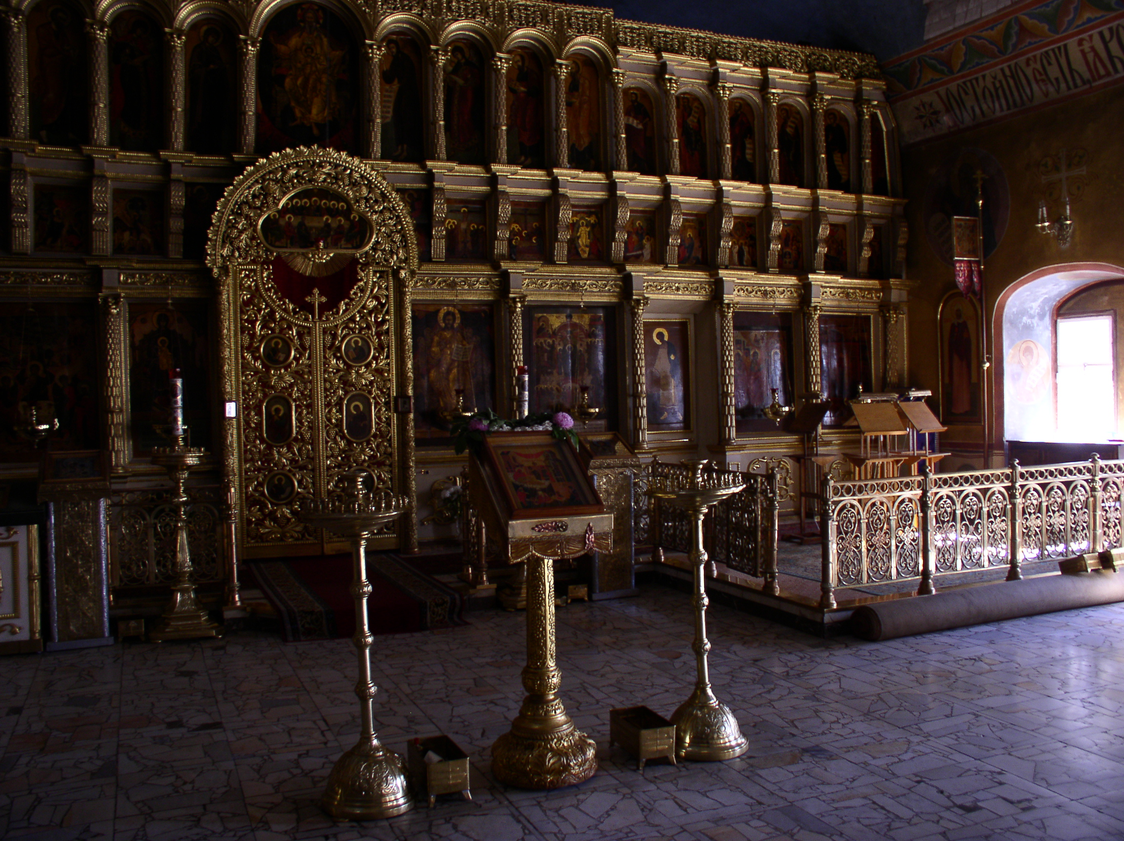 Iconostasis of one of Troitse-Sergiyeva Lavra's churches. Sergiev Posad, Russia.